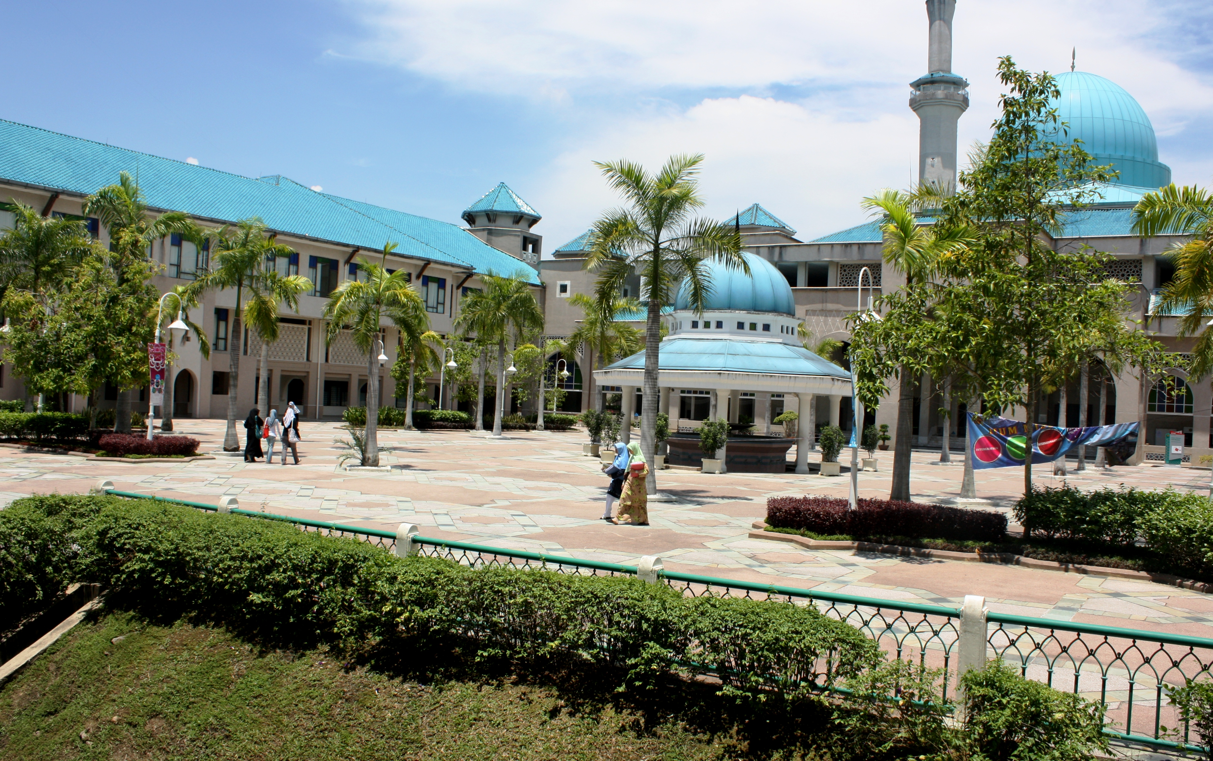 International Islamic University of Malaysia - main campus